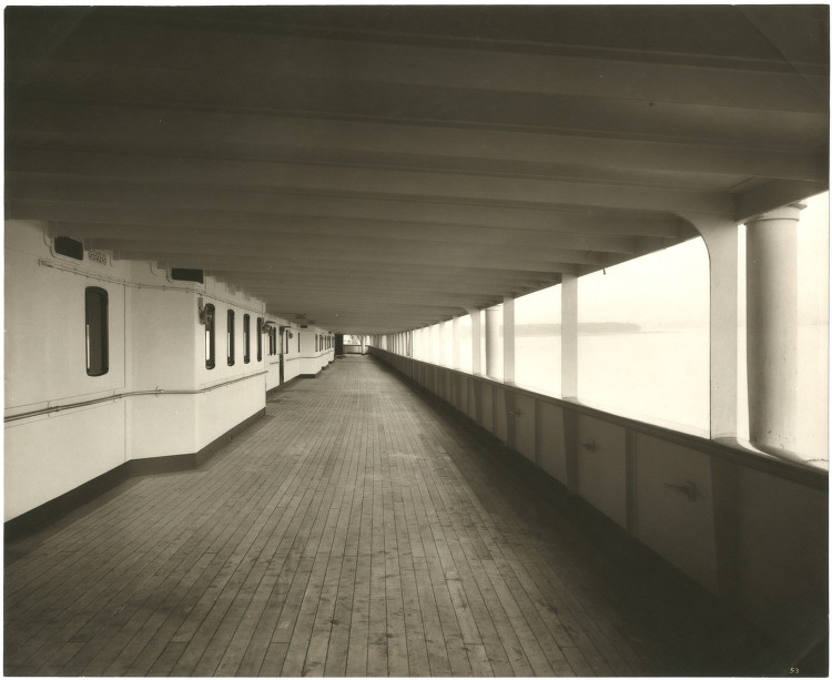 Title: [First class promenade deck, looking forward] Creator: Bedford Lemere & Co. Date: ca. 1905-1907 Part Of: Photographs of Q.S.T.S. "Lusitania" Physical Description: 1 photographic print: gelatin silver; 24 x 30 cm. File: ag1982_0183_053_sm_opt.jpg Rights: Please cite DeGolyer Library, Southern Methodist University when using this file. A high-resolution version of this file may be obtained for a fee. For details see the web page. For other information, . For more information, View the